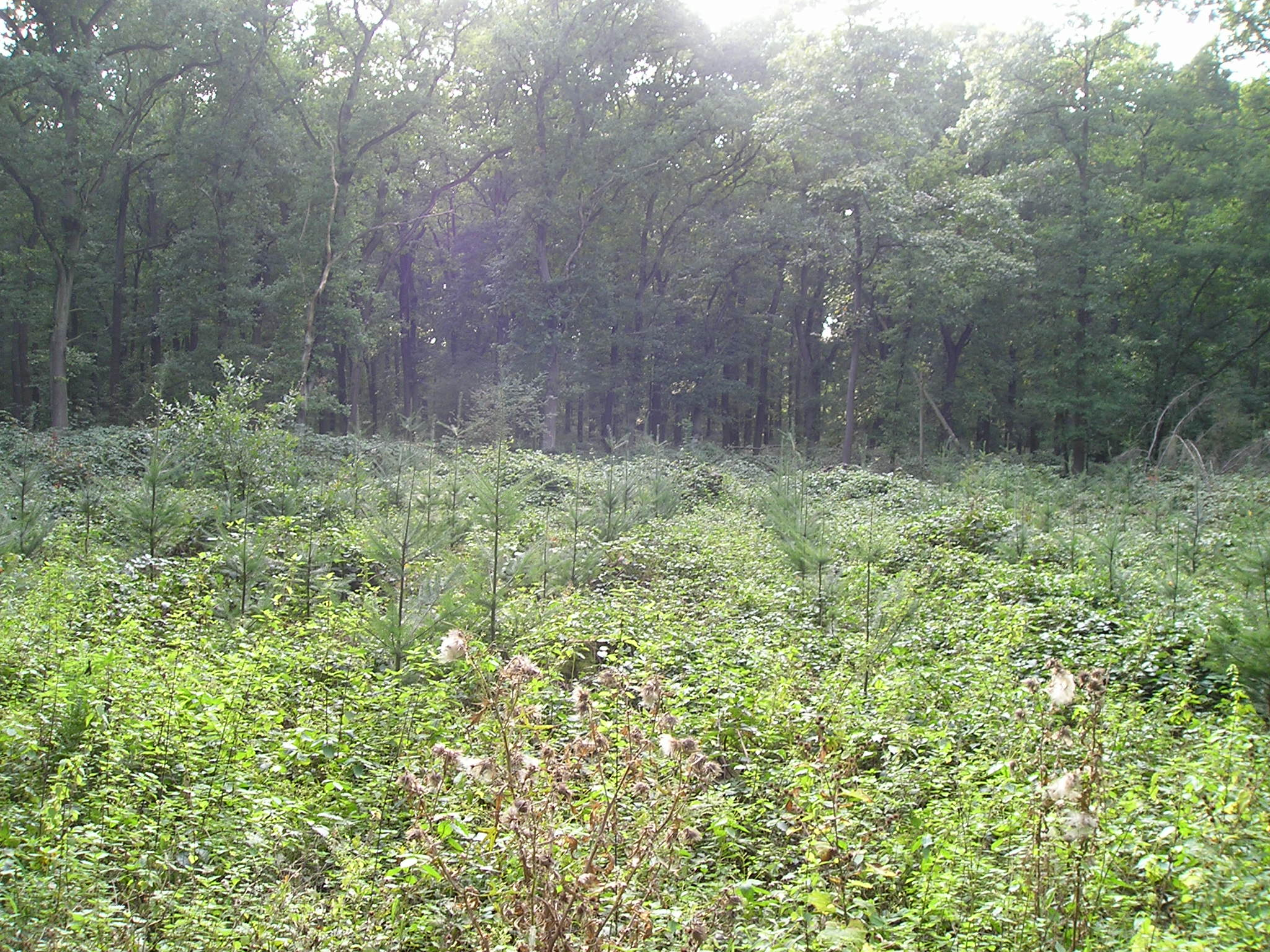 Young conifer (probably Pseudotsuga menziesii) plantation in a clearing in a Quercus robur forest.